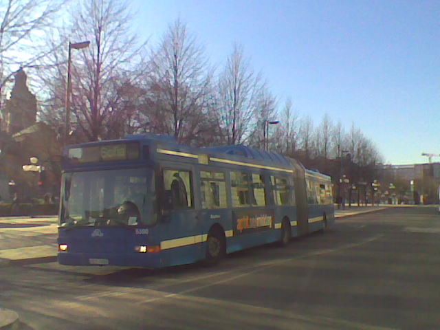 A Volvo B10LA articulated CNG bus (#5380) in Stockholm, Sweden. Busslink i Sverige AB from Stockholm operator.